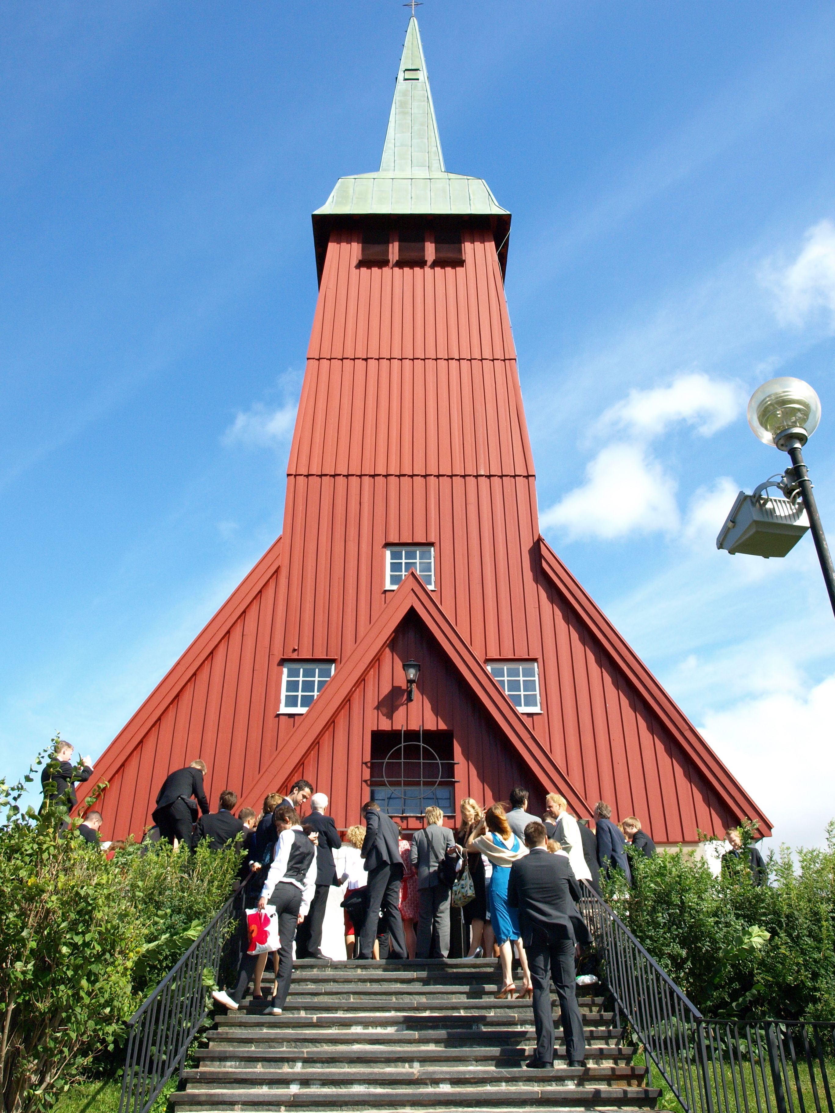 The church in Älvsborg